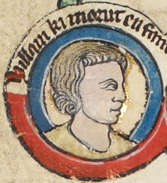 William IX, Count of Poitiers